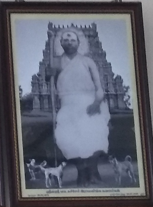 Padakatchery ramalinga swamigal பாடகச்சேரி ராமலிங்க சுவாமிகள்